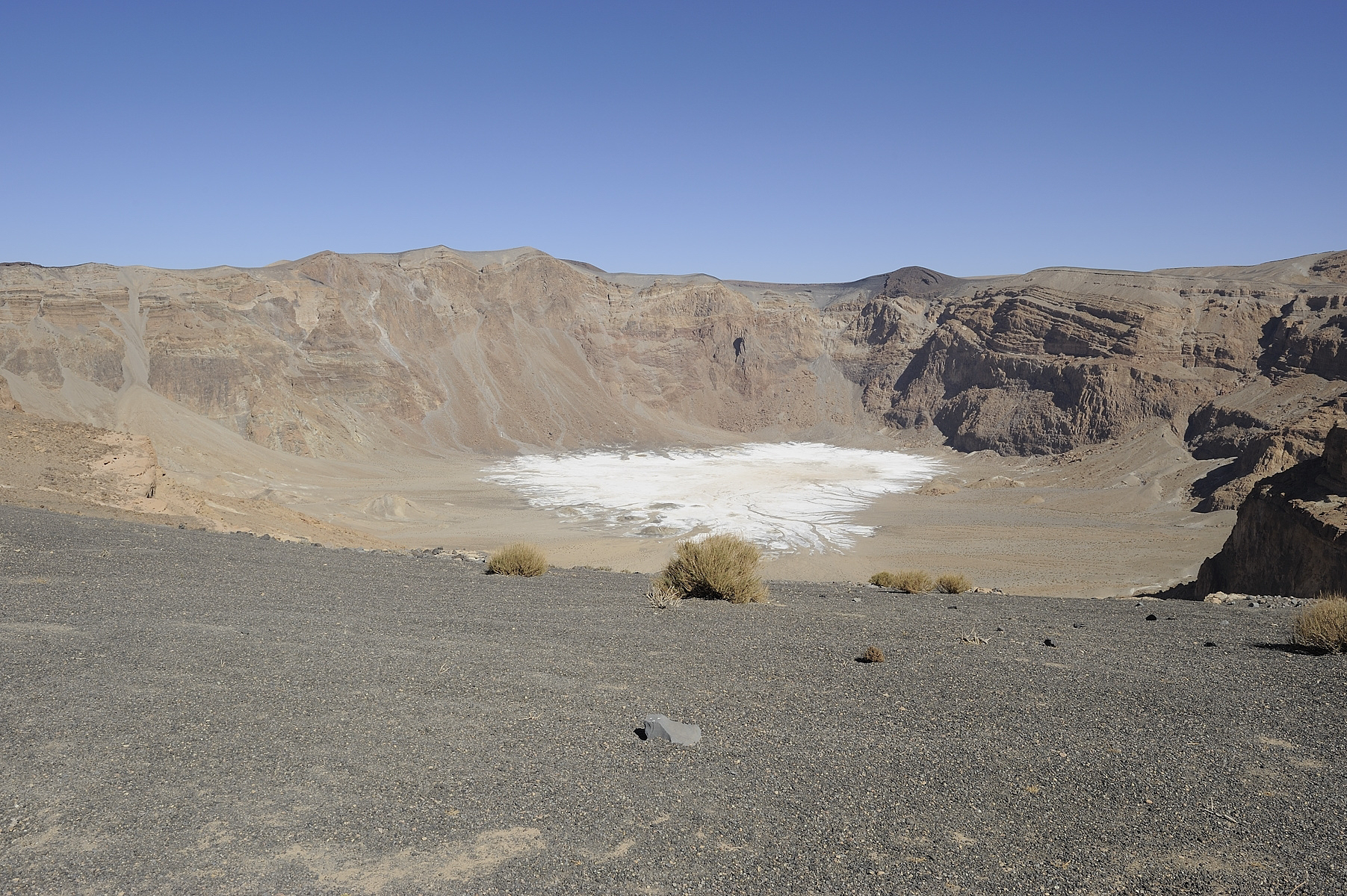 Inner crater of Mount Emi Koussi (Tibesti, Chad)